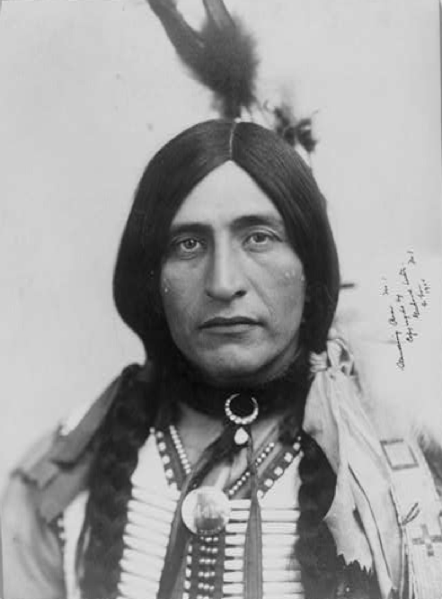 Standing Bear, head-and-shoulders portrait, facing front Other information No.